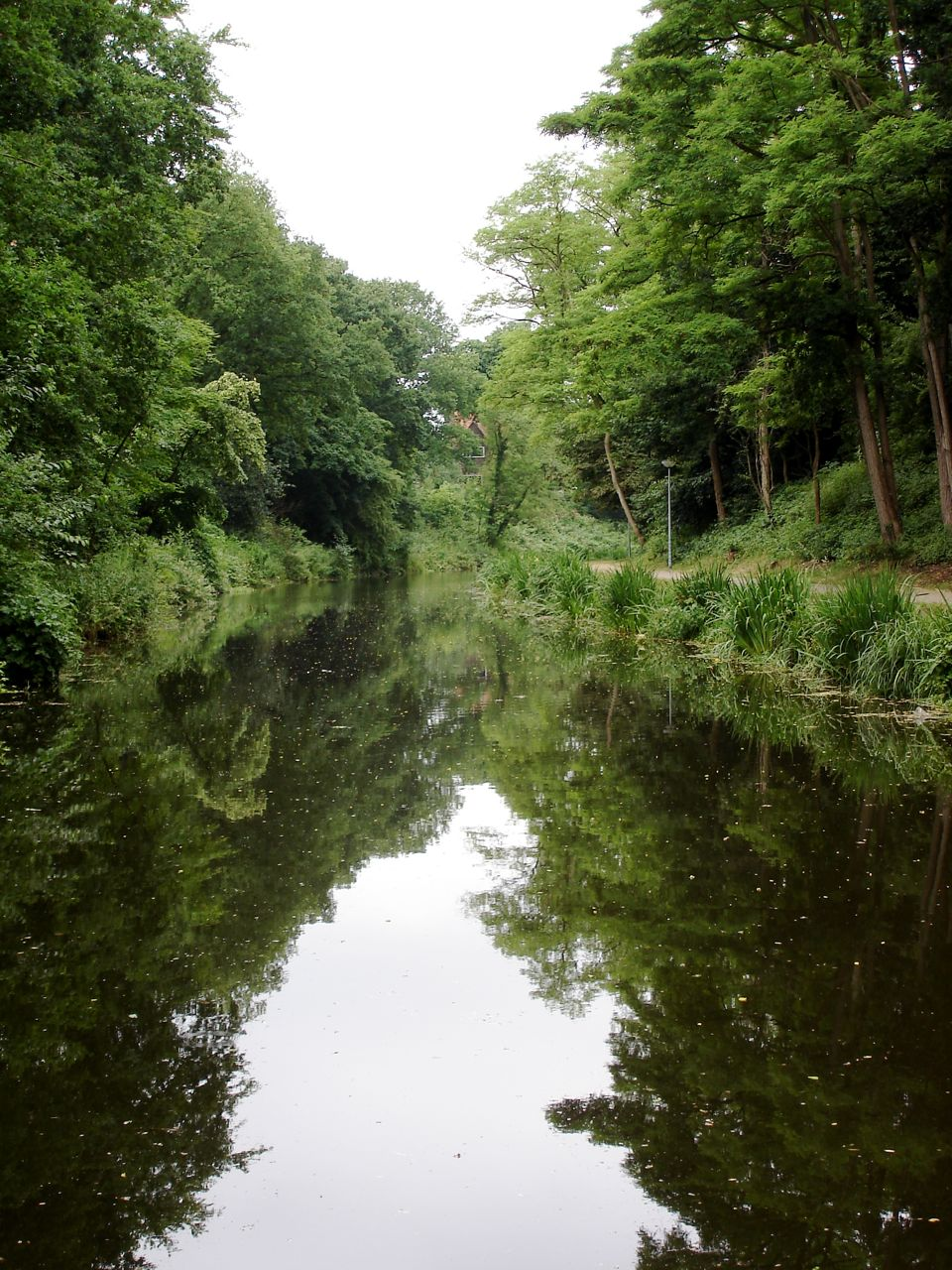 Canal in Hilversum, with trees and water reflection.